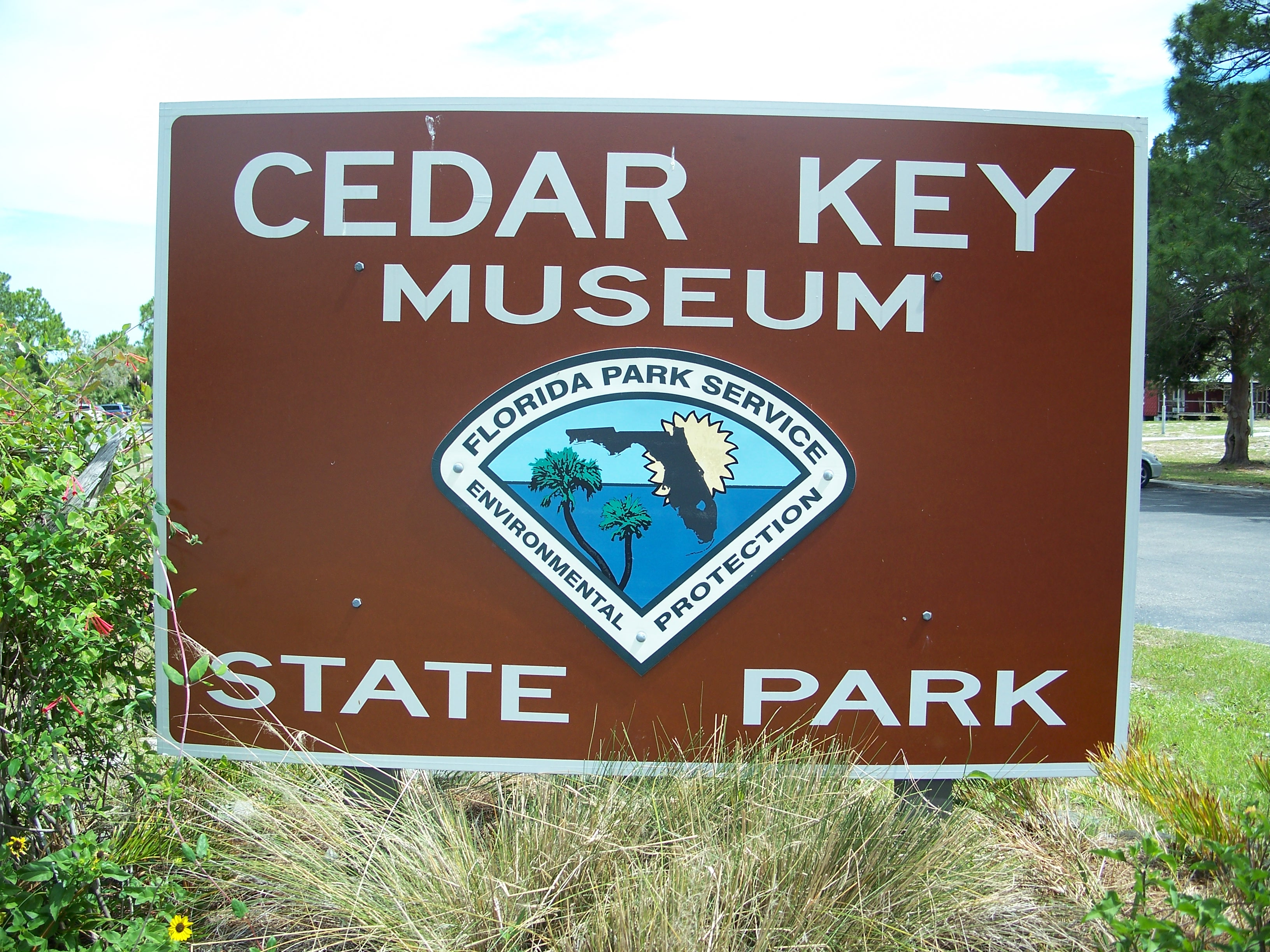 Entrance sign at the Cedar Key State Museum in Cedar Key, Florida.